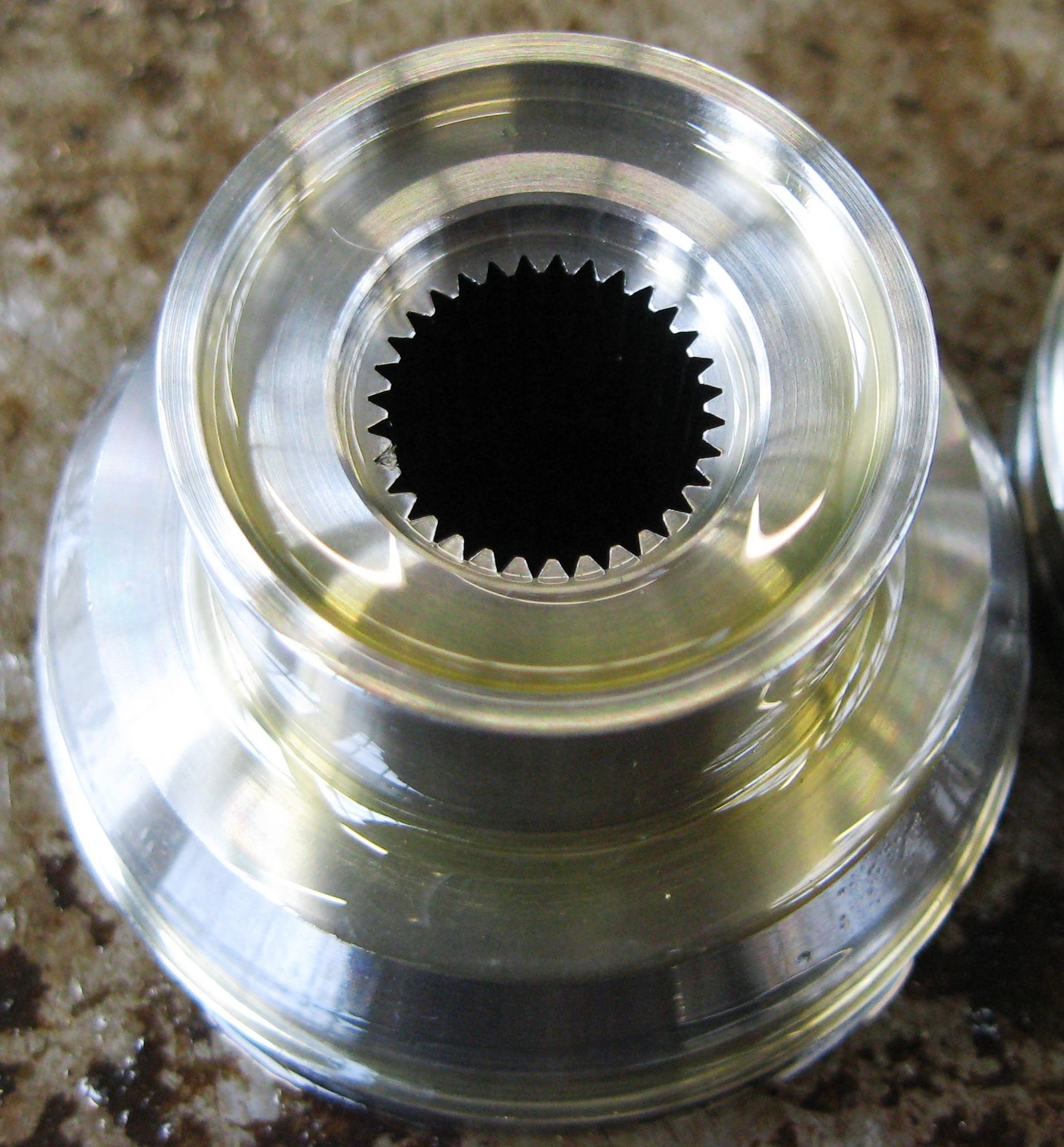 An example of a broached workpiece, here exhibiting splines.